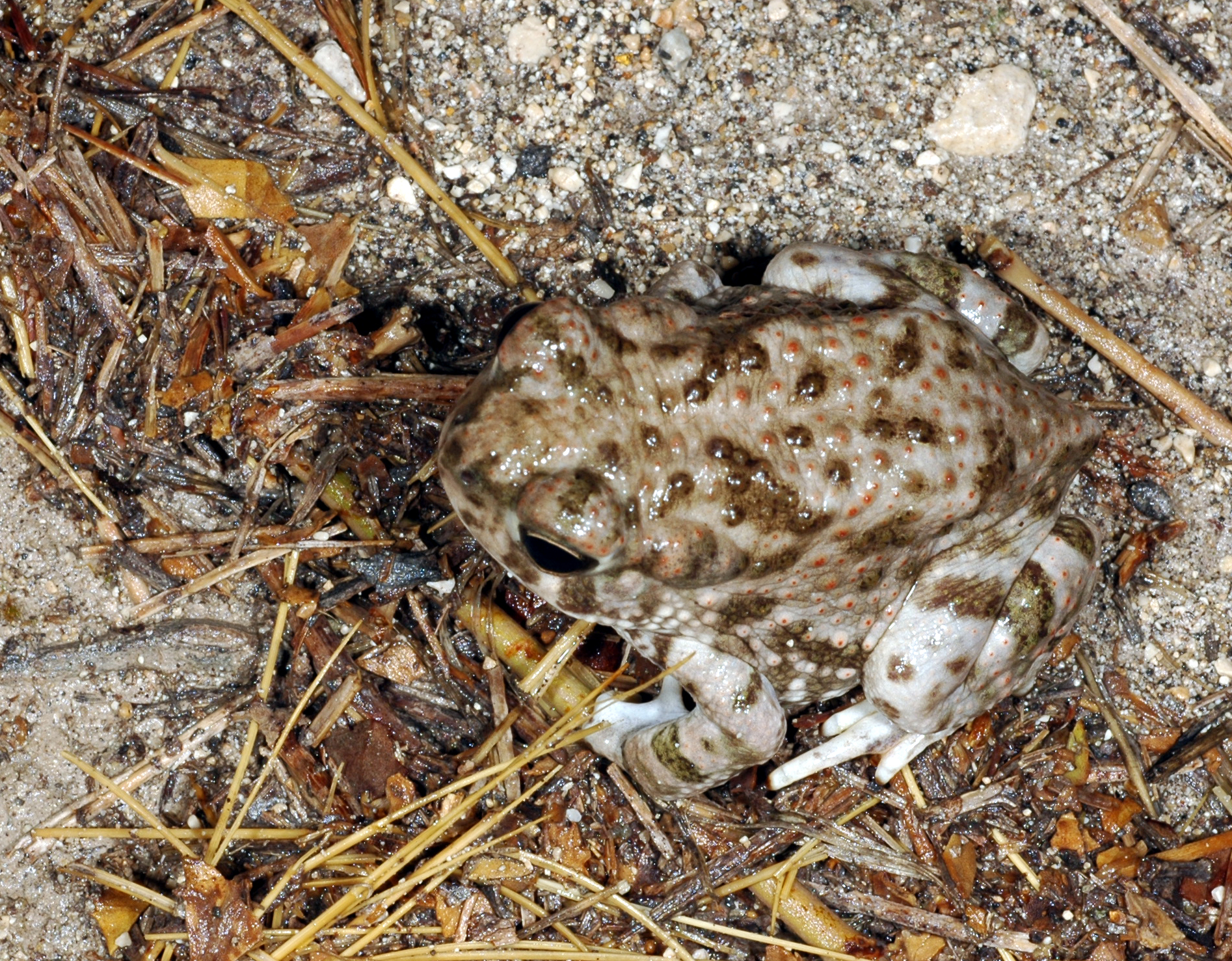 Scaphiopus couchii